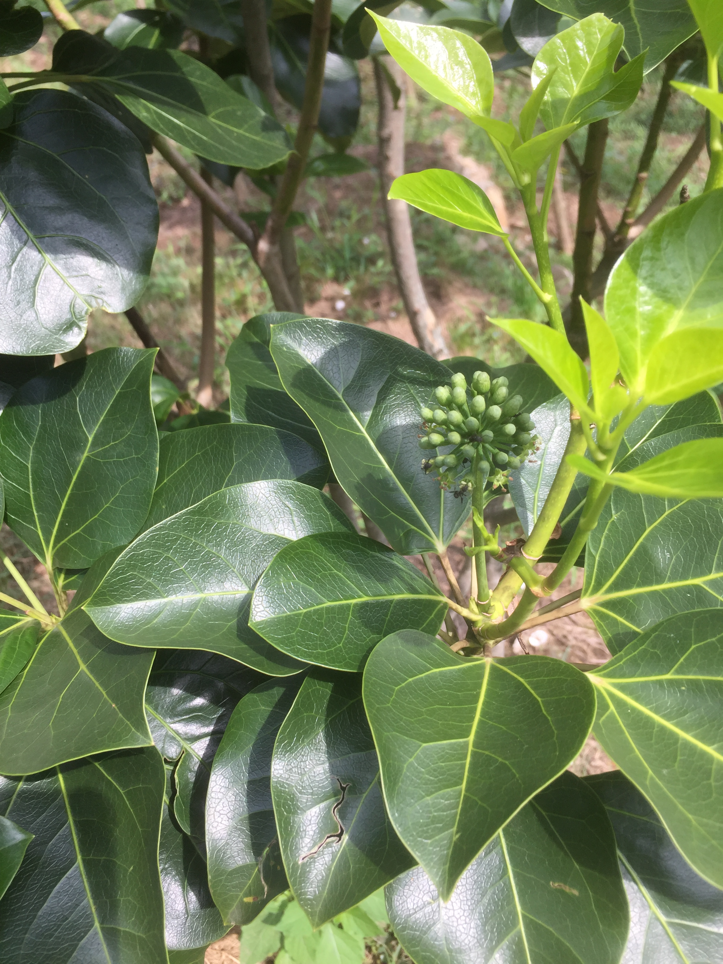 Dendropanax morbiferus Pyeongsa-ri, Nagna-myeon, Suncheon in South Korea